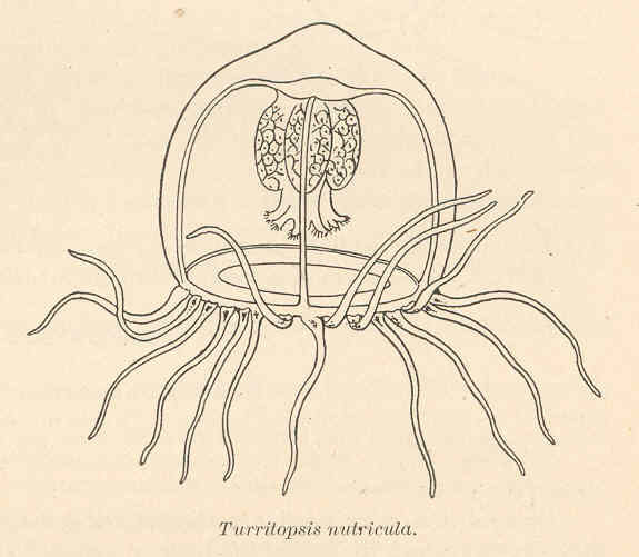 Turritopsis nutricula Subject: Jellyfishes, Turritopsis Tag: Invertebrates